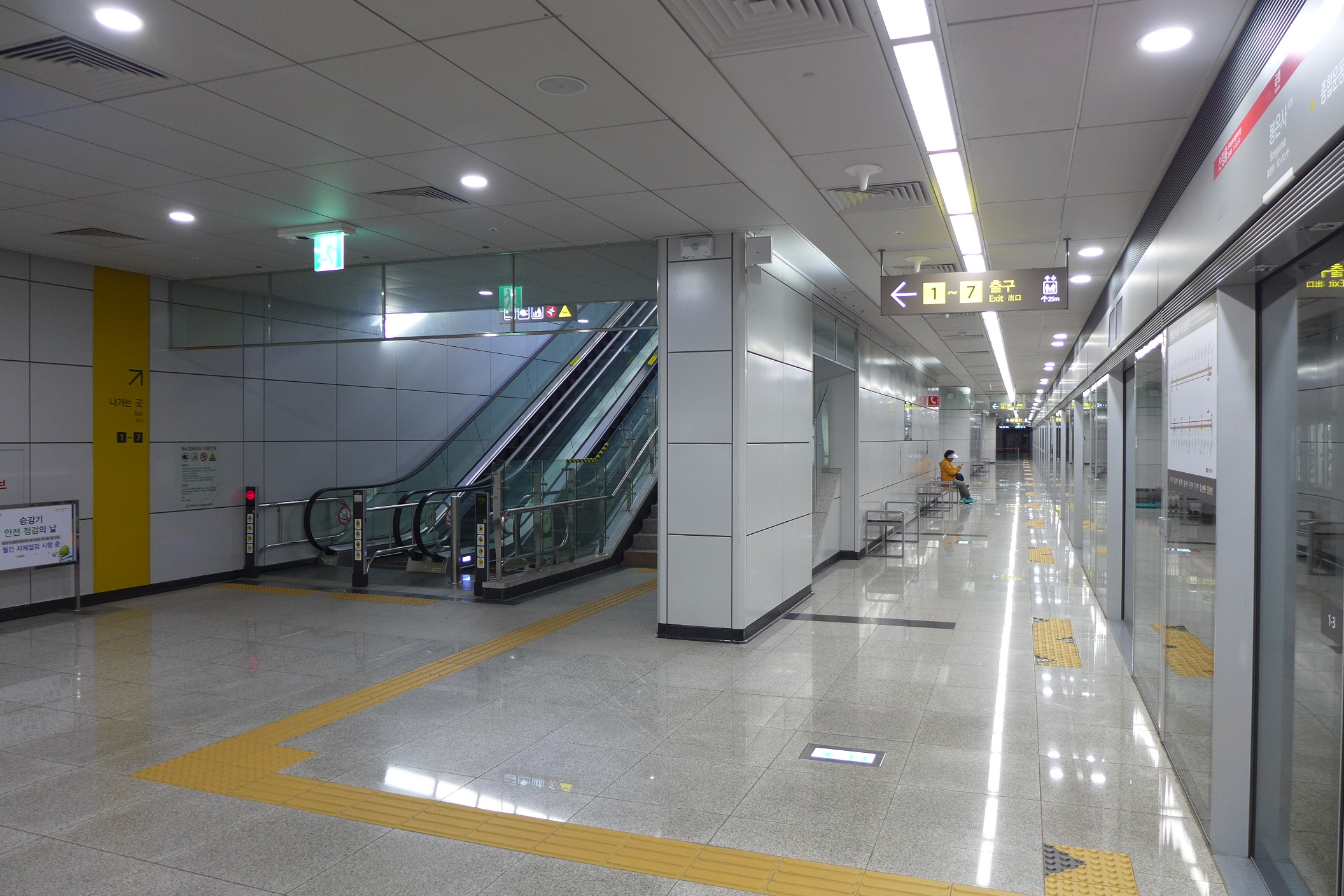 Bongeunsa Station Platform